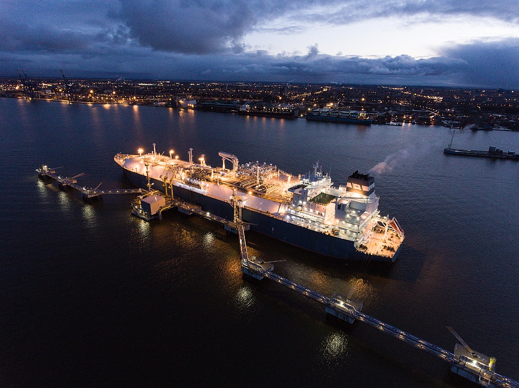 FSRU Independence, delivered in March 2014 is an LNG carrier designed as a floating LNG storage and regasification unit to be used as an LNG import terminal in Lithuania. View at night.